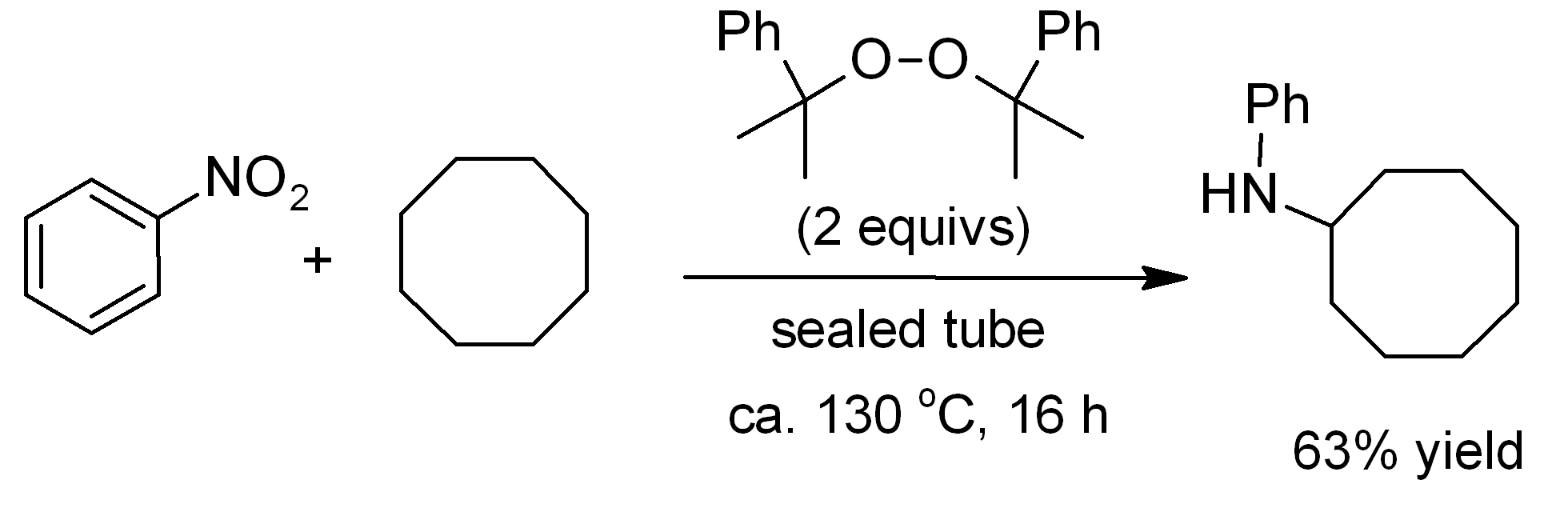 Cumyl peroxide promoted amination of cyclooctane by nitrobenzene. See Deng G, Chen W, Li C-J. "An Unusual Peroxide-Mediated Amination of Cycloalkanes with Nitroarenes", Advanced synthesis & catalysis, 2009, 351, 353-356.